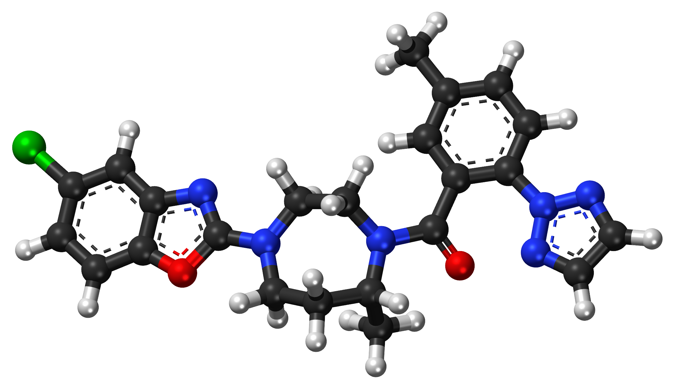 Ball-and-stick model of Suvorexant (brand name Belsomra)—a novel Hypnotic acting as an orexin receptor antagonist. Created with ChemDoodle 7.0.2 and Adobe Illustrator CC. Colors used: Carbon, C: dark grey Hydrogen, H: light grey Nitrogen, N: blue Oxygen, O: red Chlorine, Cl: green This chemical image was created with Discovery Studio Visualizer.